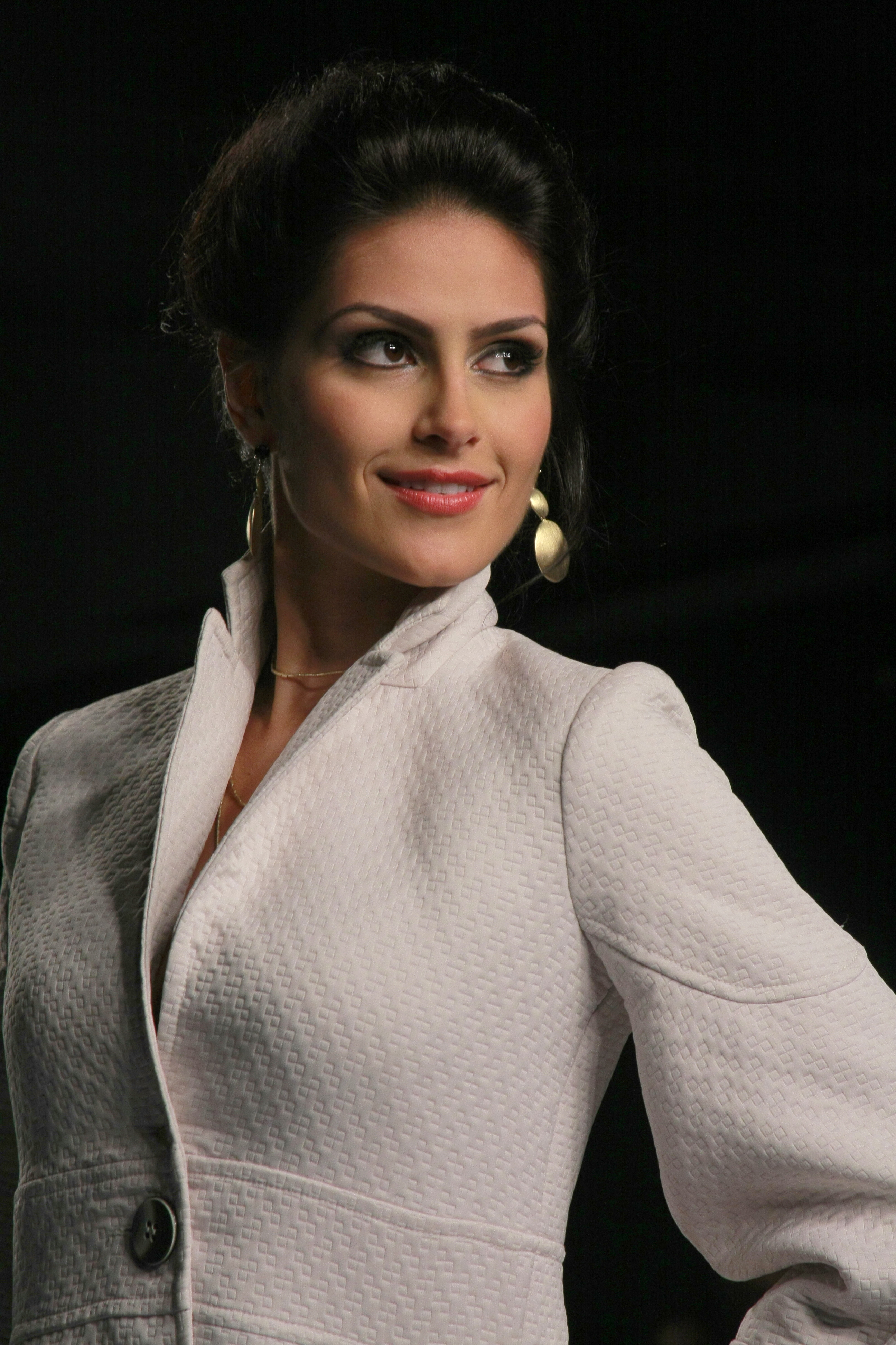 Natália Guimarães in Crystal Fashion 2008.